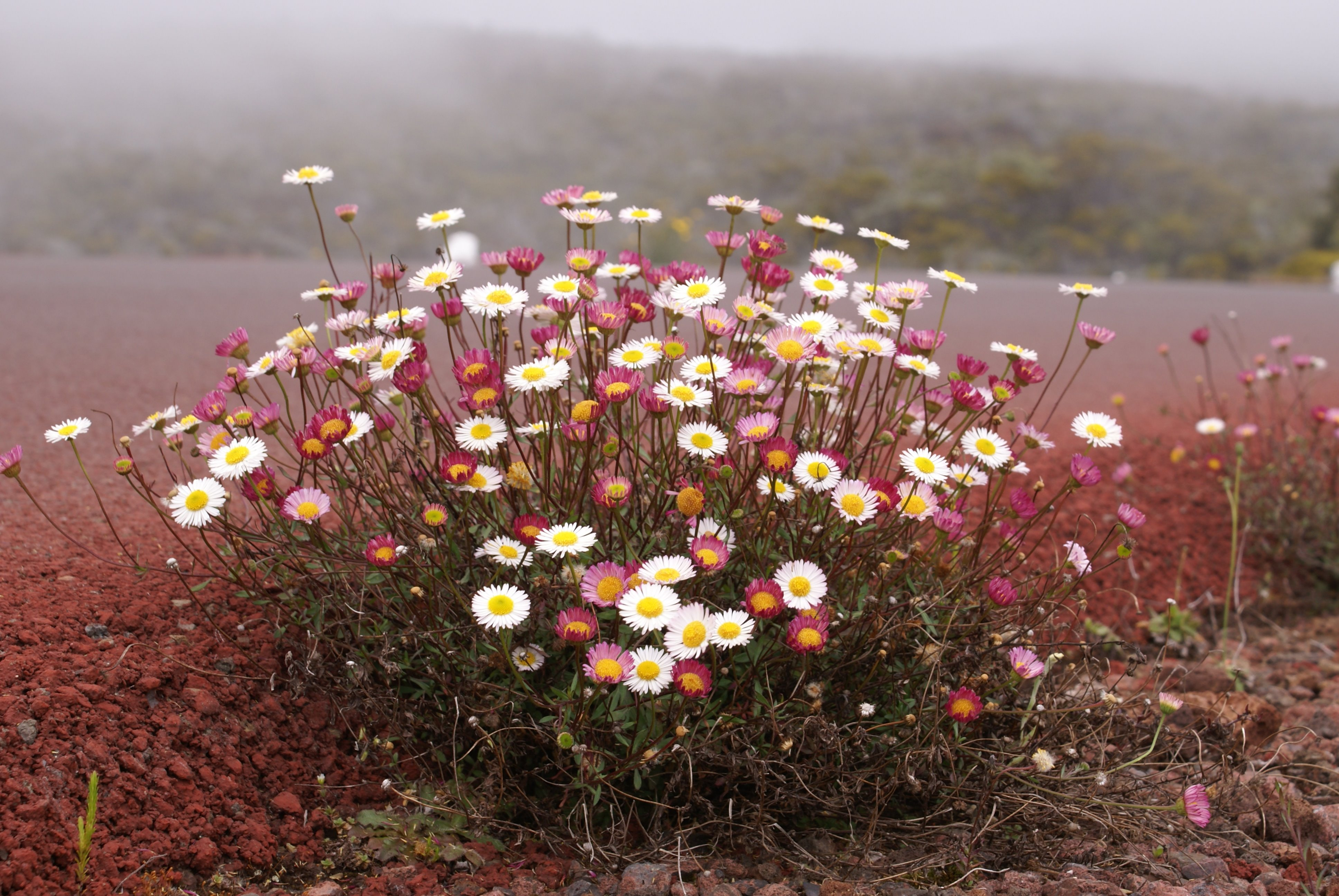 Erigeron karvinskianus, an invasive introduced species on Réunion island originally coming from Mexico, is a pioneer plant, the first to grow along the edges of the Route du Volcan (“the Volcano Road”) which leads to the Piton de la Fournaise and which have been red-colored (1,5 % iron oxyd added in the tar) for better suiting with the natural colors of the volcanic rocks.